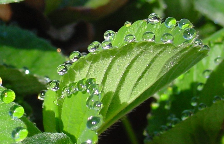 Description: Guttation on a Strawberry leaf Photo taken by: Noah Elhardt